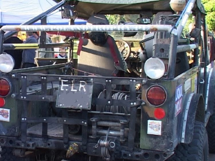 Off-road